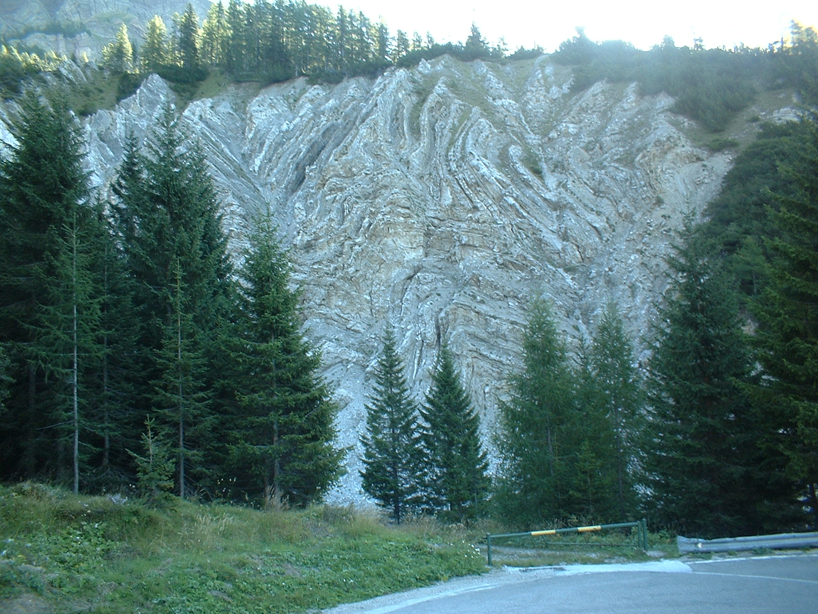 Evaporites in the Bellerophon Formation (Passo Rolle - Trentino- Italy)